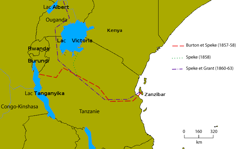 translation in fr of an (en) map File:BurtonExploration.png